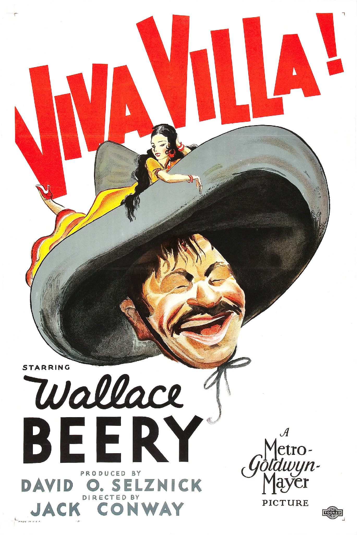 Poster for the 1934 film Viva Villa!. The item has no copyright markings on it as can be seen in the links above. At lower left is "D" (poster version D), Litho in USA #4818. At lower right is the logo of Tooker Litho Co., NY-they printed the poster.